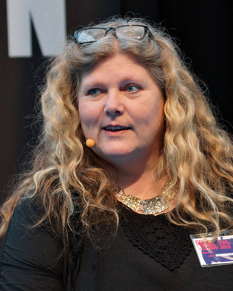 Lene Kaaberbøl - Danish writer at the Copenhagen Book Fair "BogForum 2012", Copenhagen, Denmark